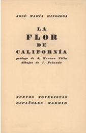 cover page of La Flor de California by Jose Maria Hinojosa, a book published in Spain in 1928